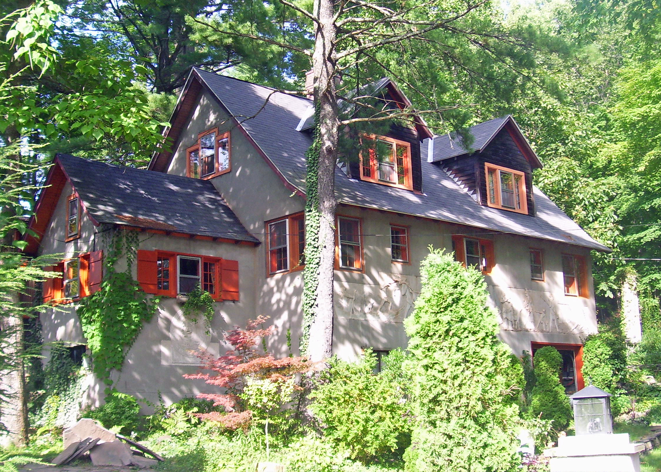 Emile Brunel Studio, Boiceville, NY, USA